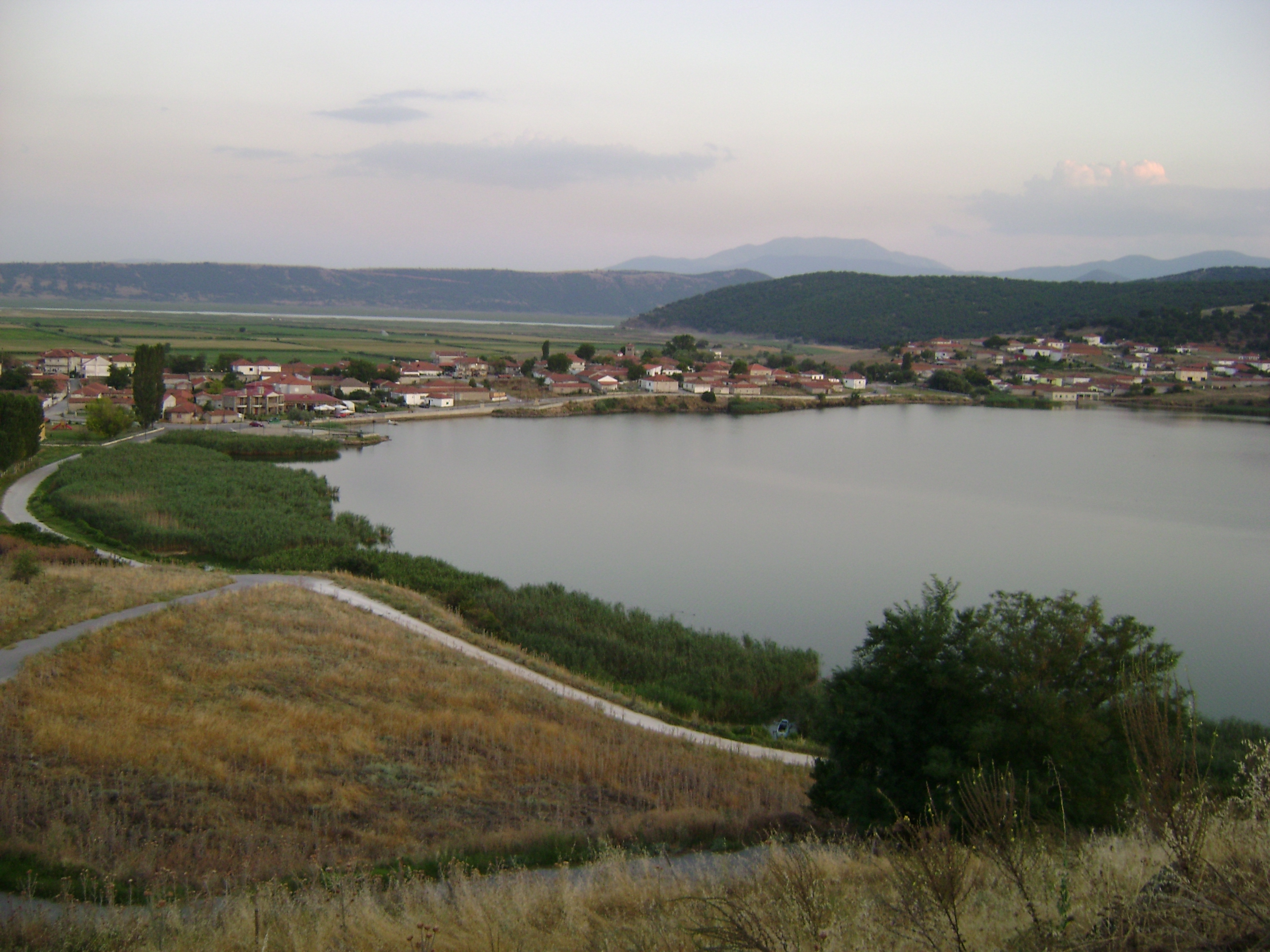 This is a photography of Natura 2000 protected area with ID GR1340005